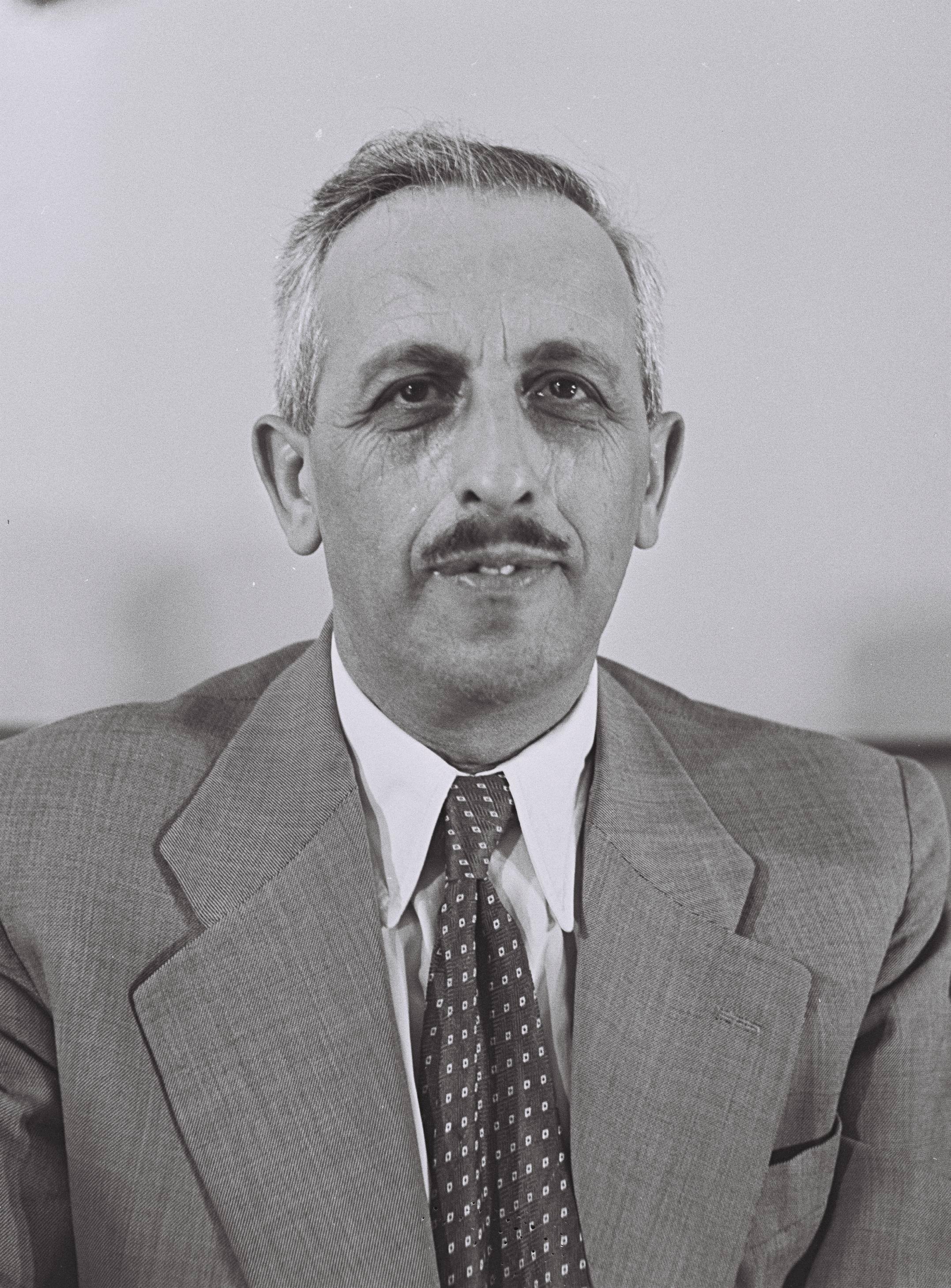 Original Description: PORTRAIT, YITZHAK KARIV, MAYOR OF JERUSALEM.